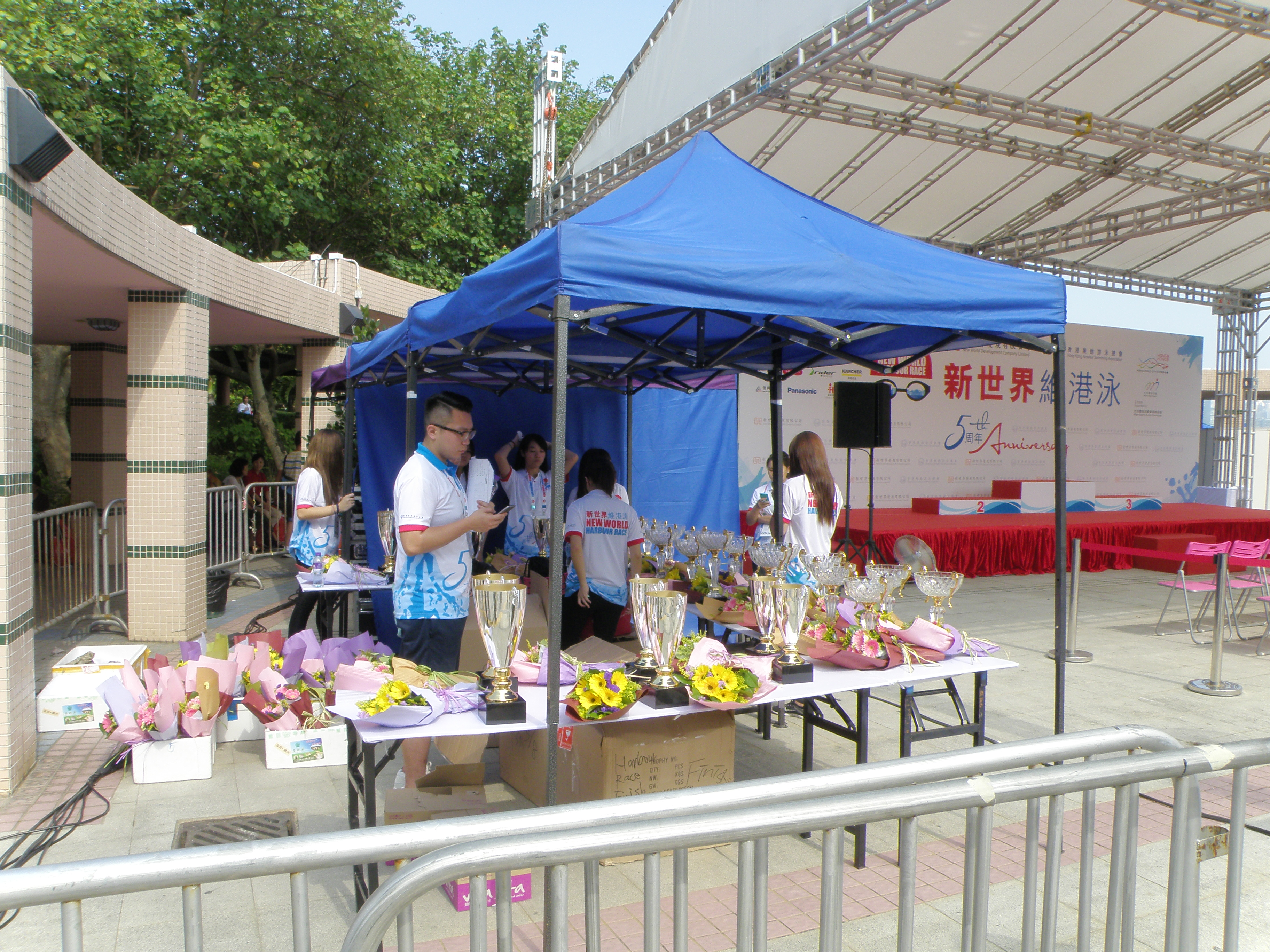 New World Harbour Race in Victoria Harbour, Hong Kong.